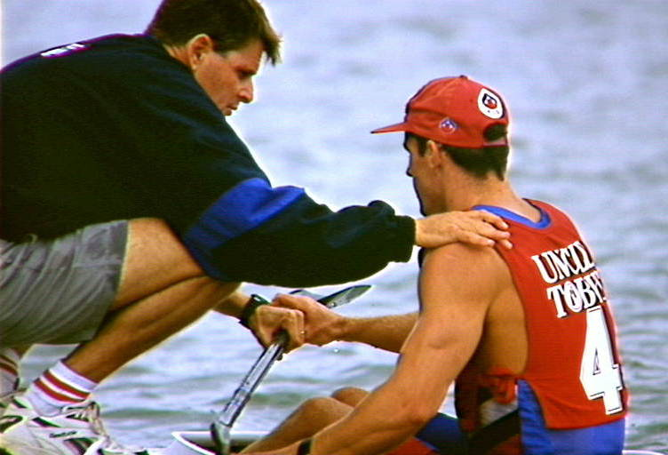 Australian Institute of Sport Head Coach Sprint Canoeing Barry Kelly (left) with canoeist Cameron McFadzean.